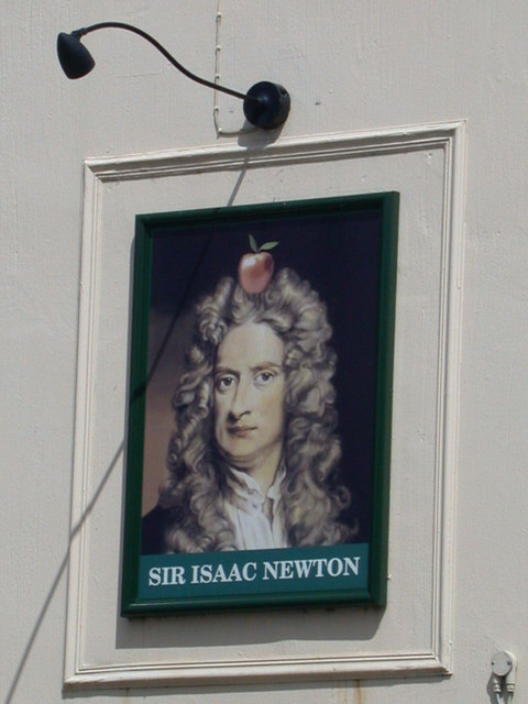 Sir Isaac Newton - sign Captured 10 milliseconds before a life-changing moment.